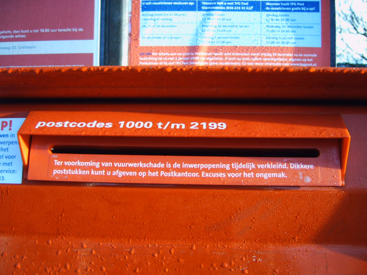 Dutch letterbox with reduced insertion slit to prevent firecrackers being thrown in. A standard procedure to prevent vandalism during the second half of December.